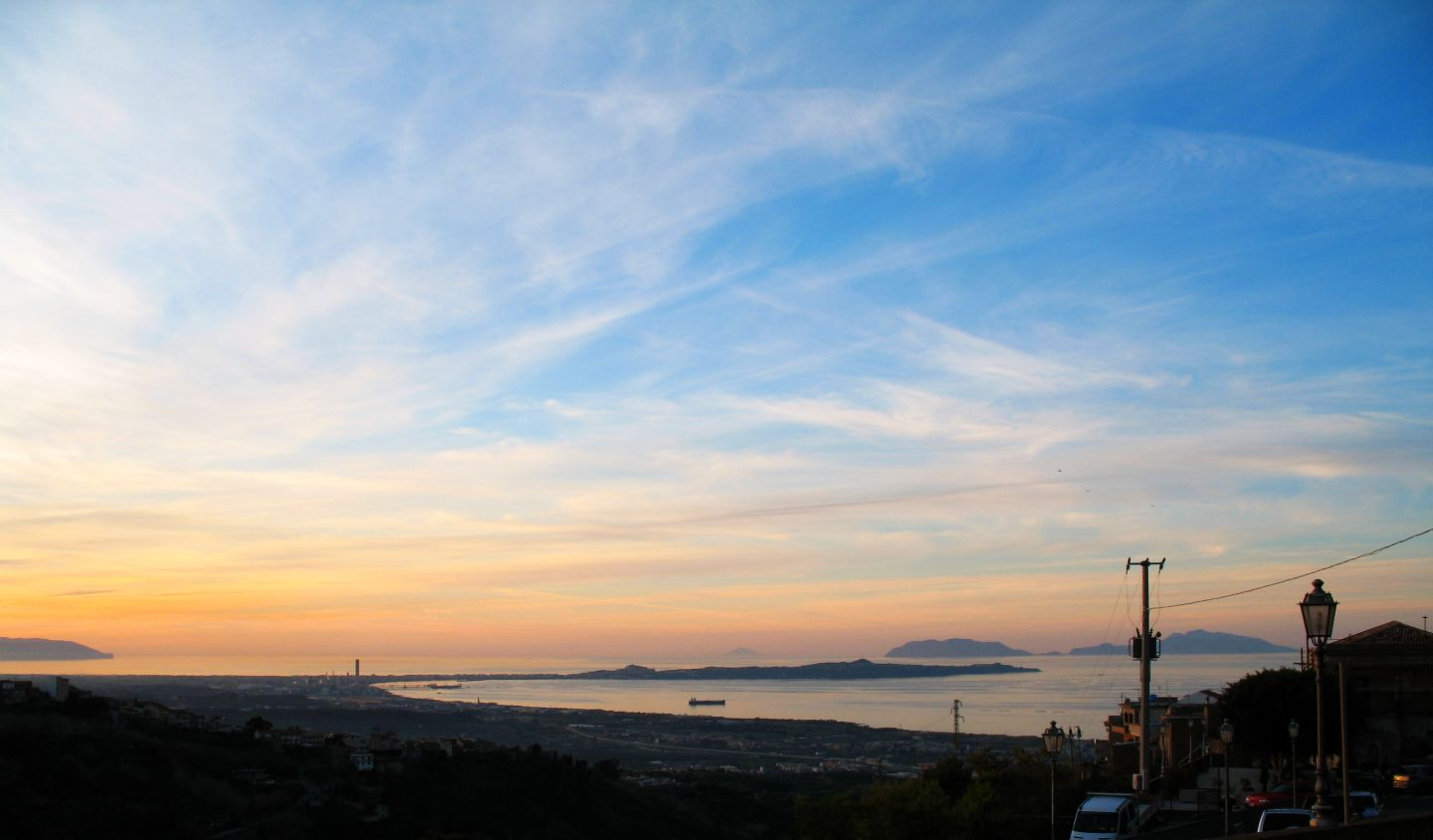 Cape Milazzo